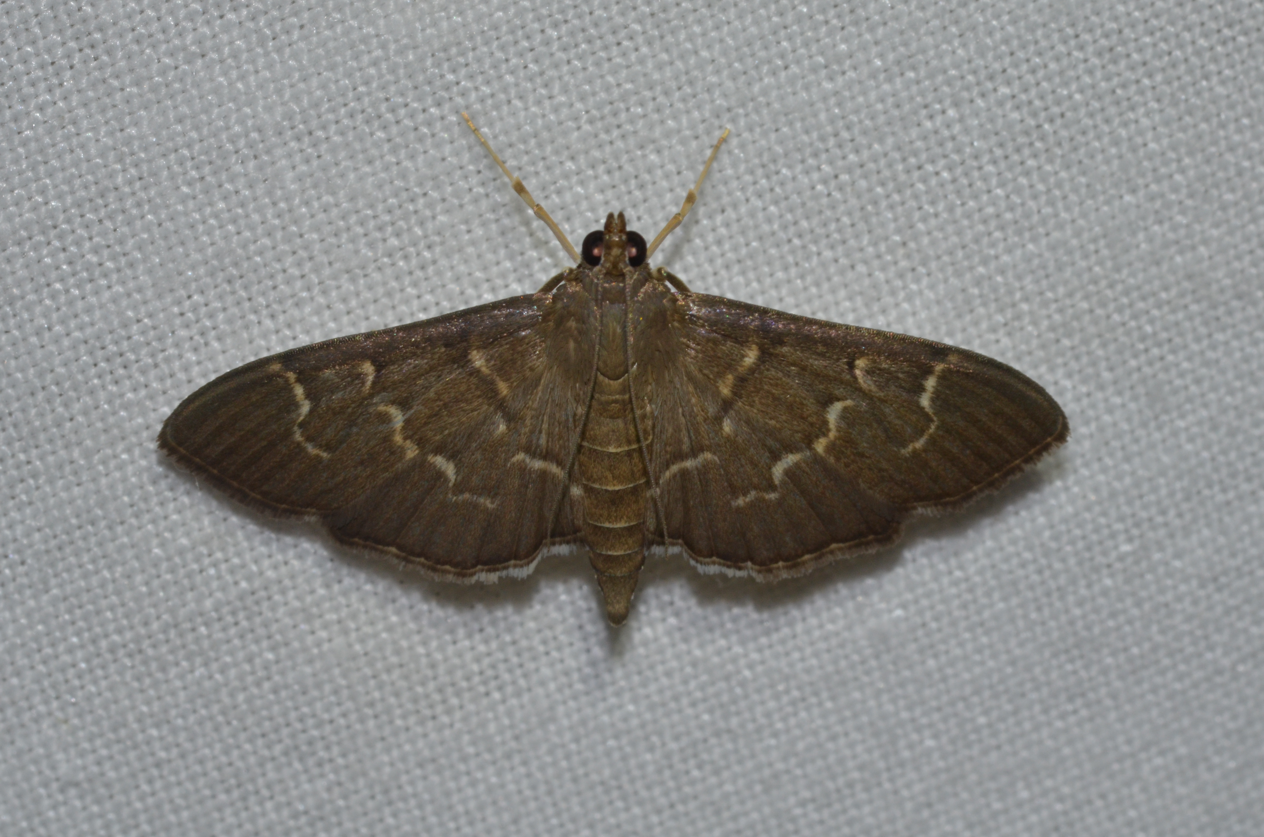 National Moth Week Event at Shaw Nature Reserve July 5, 2014